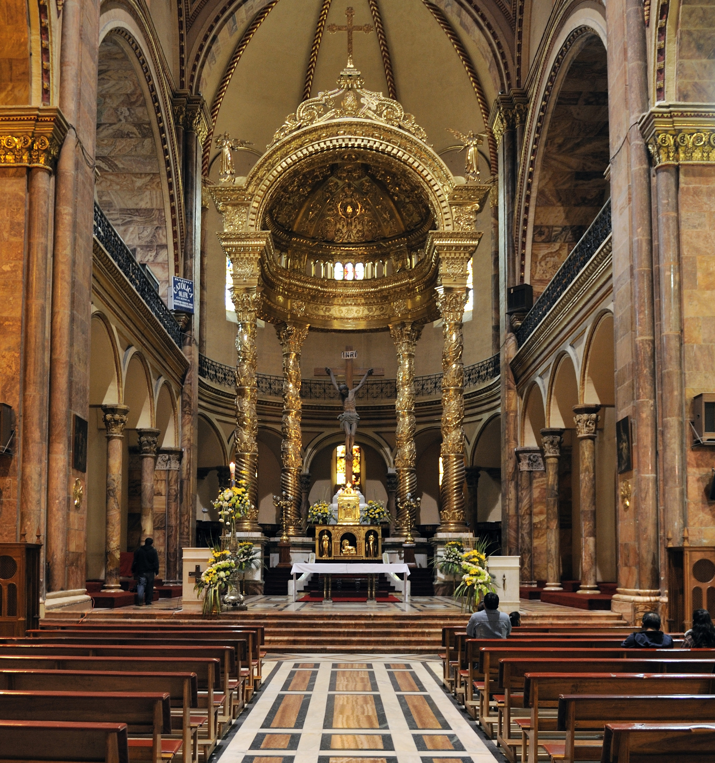 Cuenca, Ecuador: Main altar of Catedral de la Inmaculada Concepcion (Immaculate Conception), commonly designated as Catedral Nueva (New Cathedral) by the inhabitants of the city.